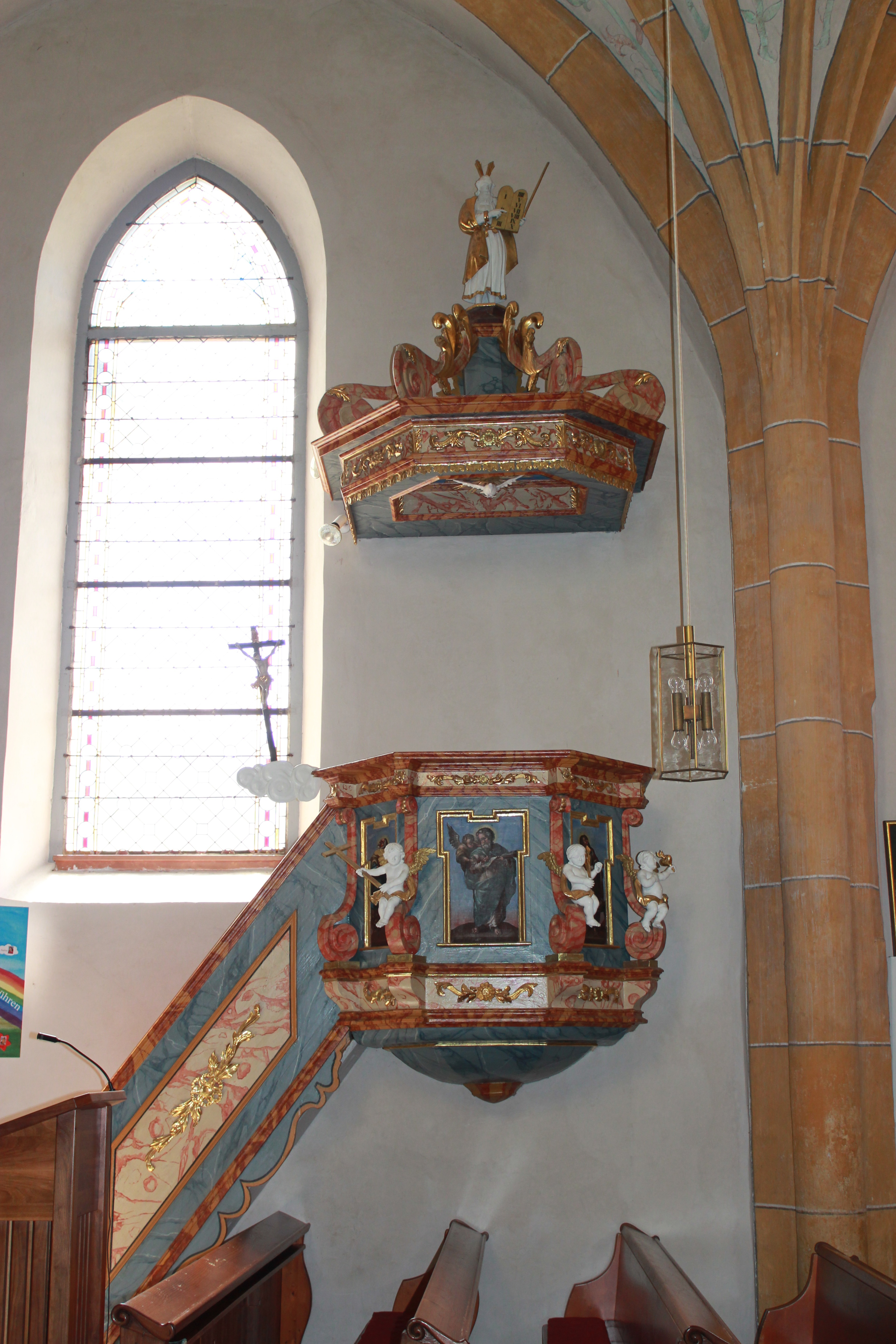 Parish church Irschen - pulpit